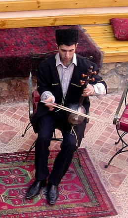 Performing Azeri musicians